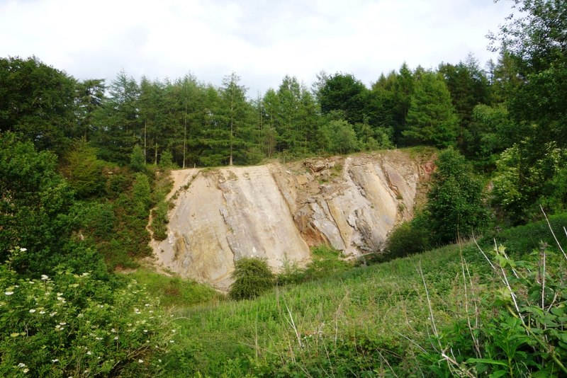 Edgehills Quarry, Plump Hill